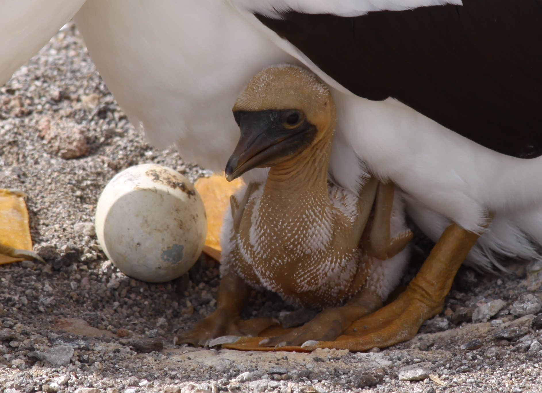 Masked Booby Chick (Sula dactylatra)